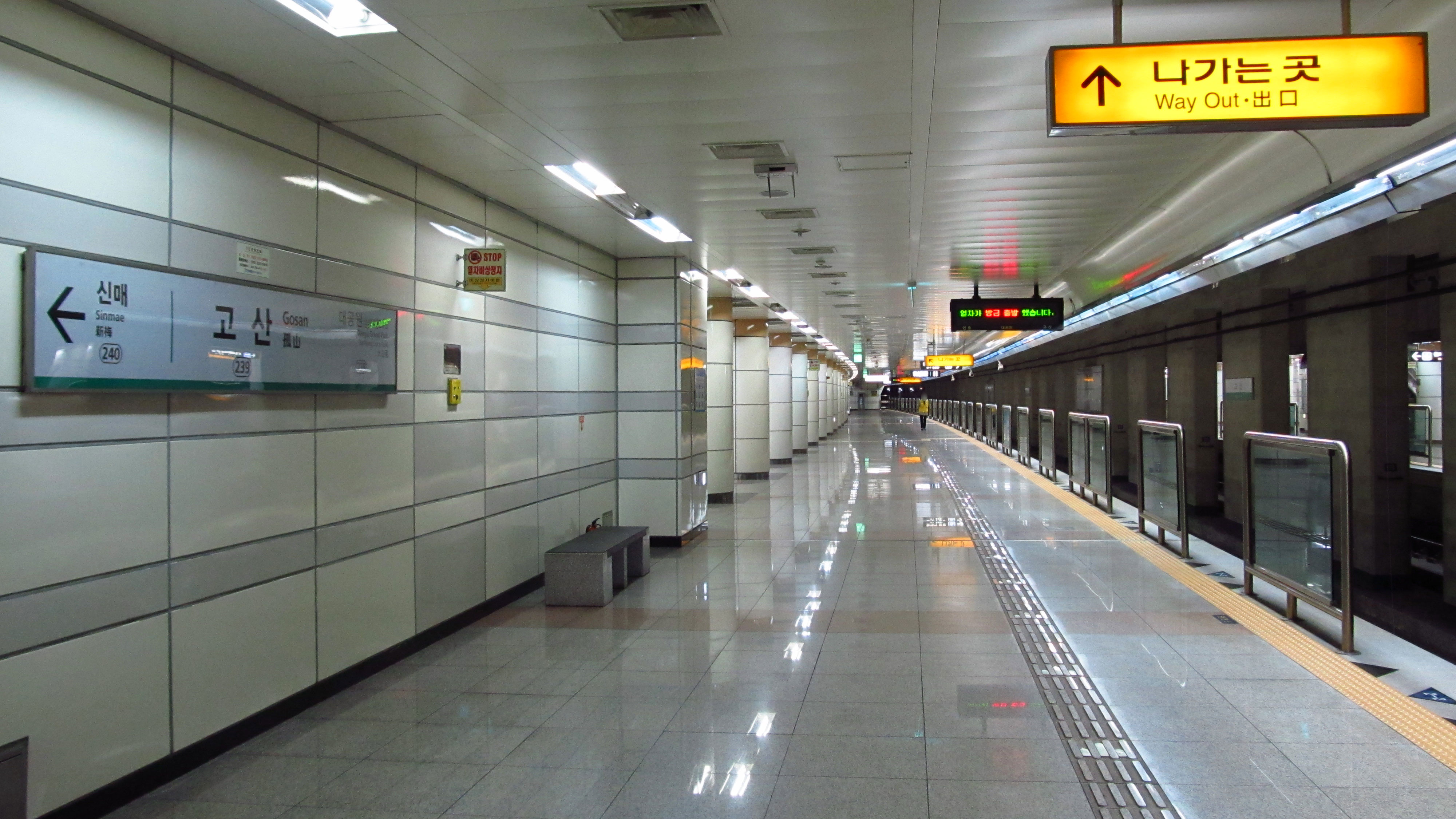 The platform of Gosan Station on the Daegu Metro Line 2, for Sinmae, Yeungnam Univ. Station